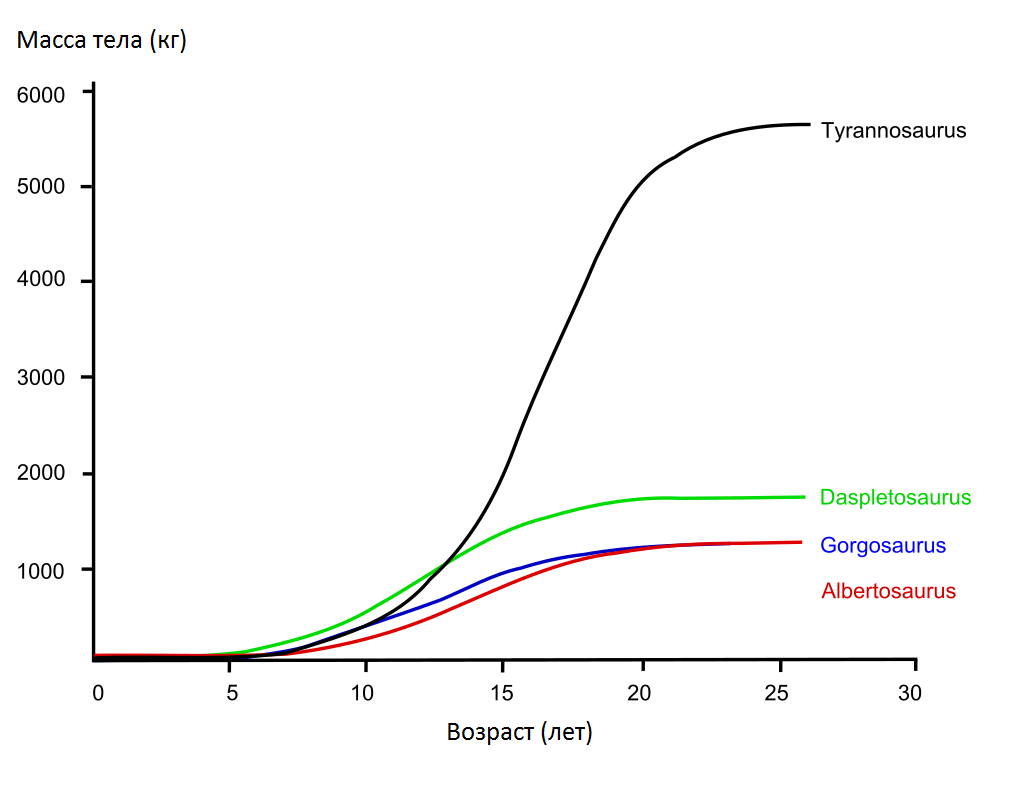 Hypothesized growth curves (body mass versus age) of four tyrannosaurids